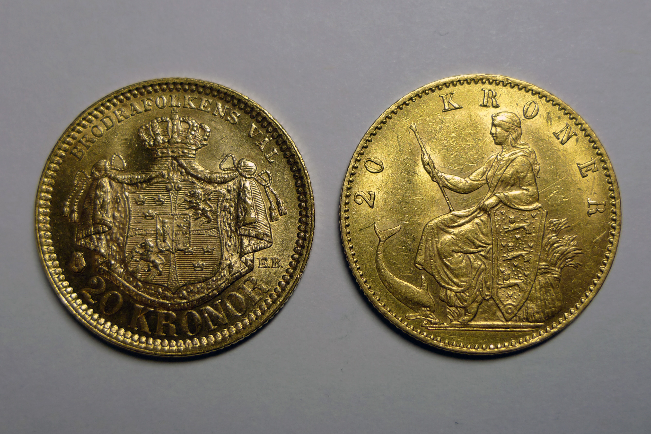 Two 20kr gold coins from the time of the Scandinavian Monetary Union. The left one is Swedish, and the right one is Danish.